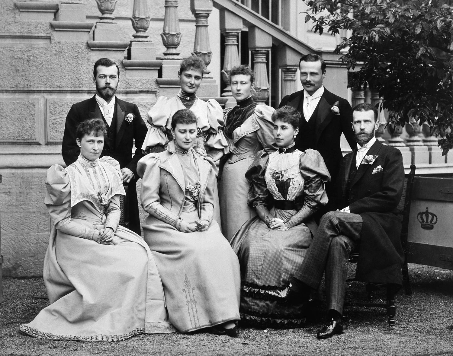 Guests of Princess Victoria Melita of Saxe-Coburg and Gotha and Ernest Louis, Grand Duke of Hesse and by Rhine at Neues Palais in Darmstadt.Top Row: Tsarevich Nikolay Alexandrovich, Princess Alix of Hesse, Princess Victoria and their brother Grand Duke Ernest Louis. Bottom Row: Princess Irene of Prussia, Grand Duchess Elizaveta of Russia, Princess Victoria Melita and Grand Duke Sergei Alexandrovich of Russia.